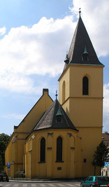 Prague 1 - Nové Město (Kliment), church of ČCE